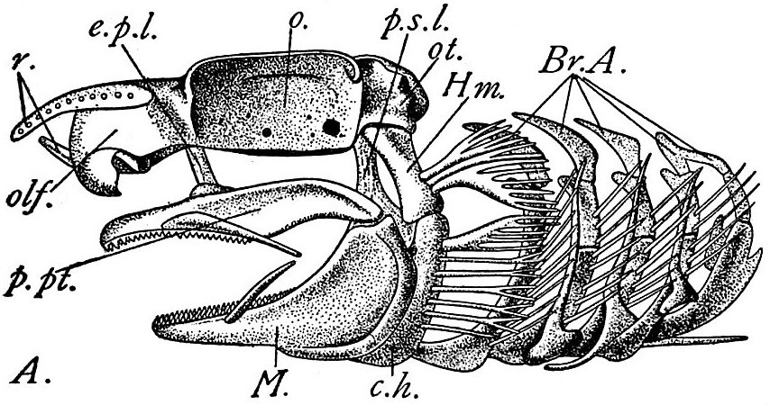 Chondrocranium etc. of Scyllium. See legend below.